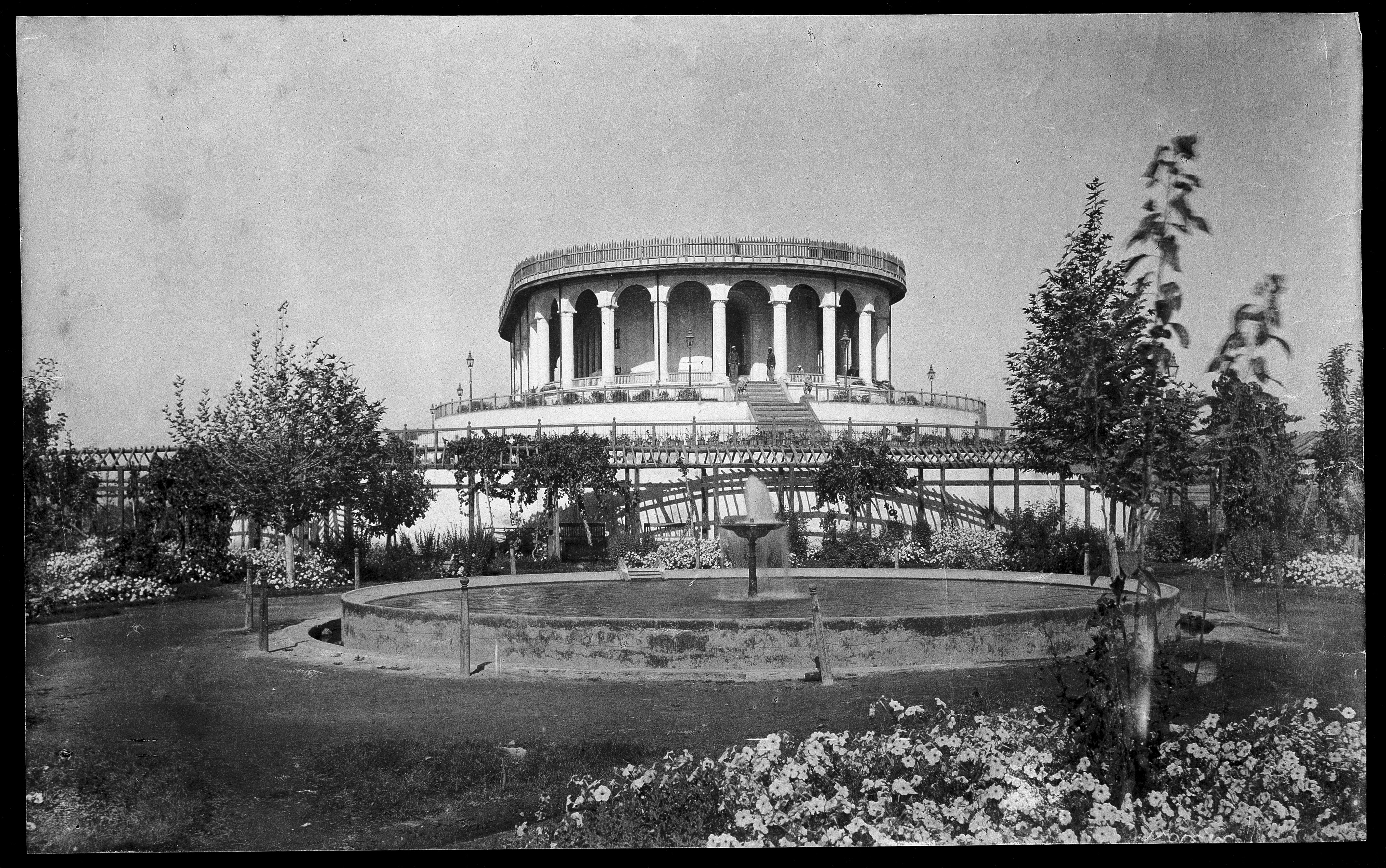 Hendaki Palace, the Emir's residence, Kabul Archives & Manuscripts Keywords: Architecture; Fountain; Garden; Palace; Afghanistan; Architecture as Topic; Lillias Anna Hamilton; Lillias Anna Hamilton